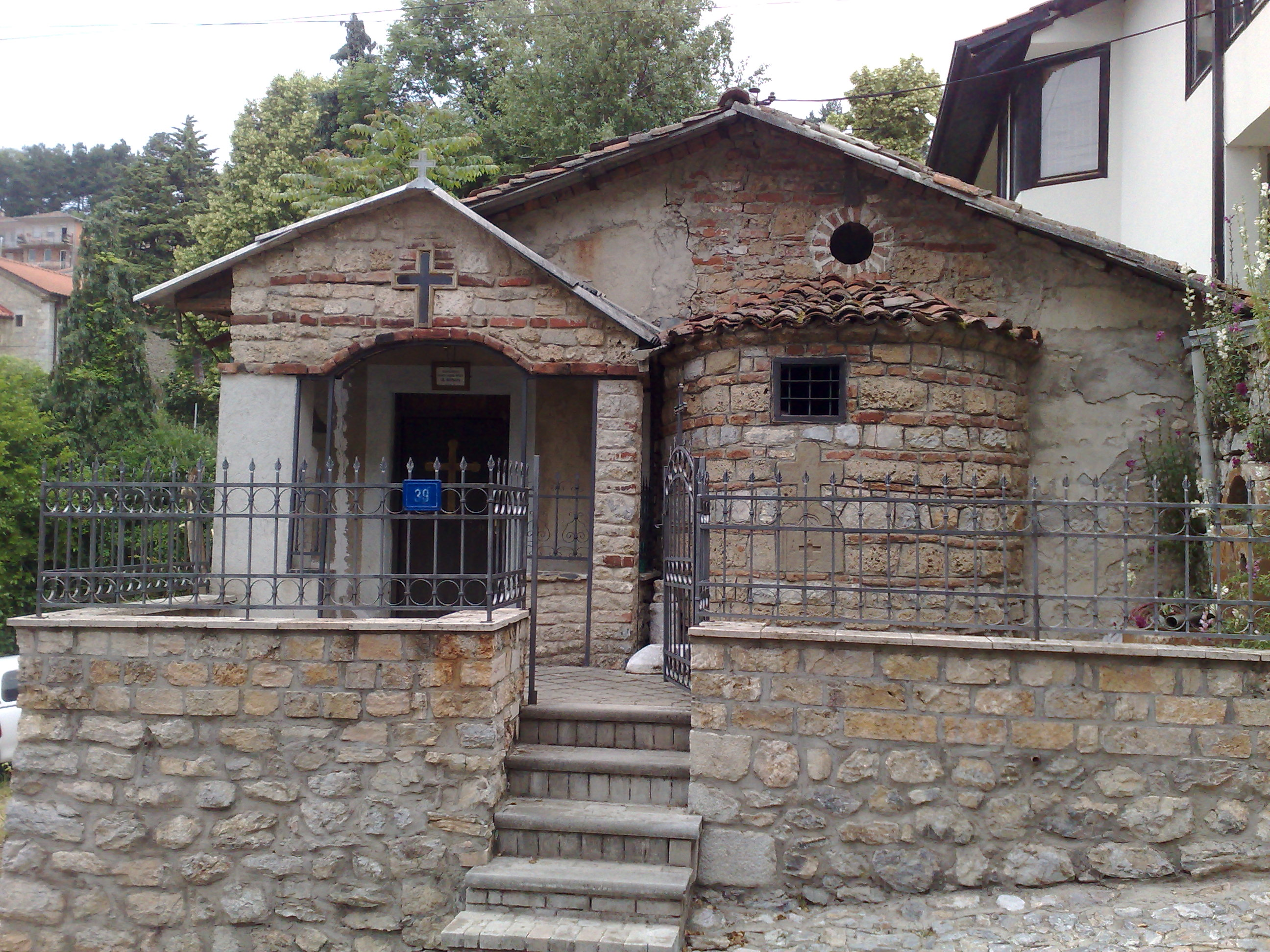 Church Sv. Varvara in Ohrid, Macedonia